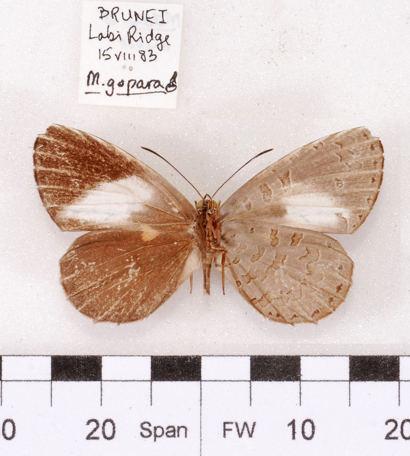 Miletus gopara eustatius, male, set specimen, Brunei, Alan Cassidy photo.